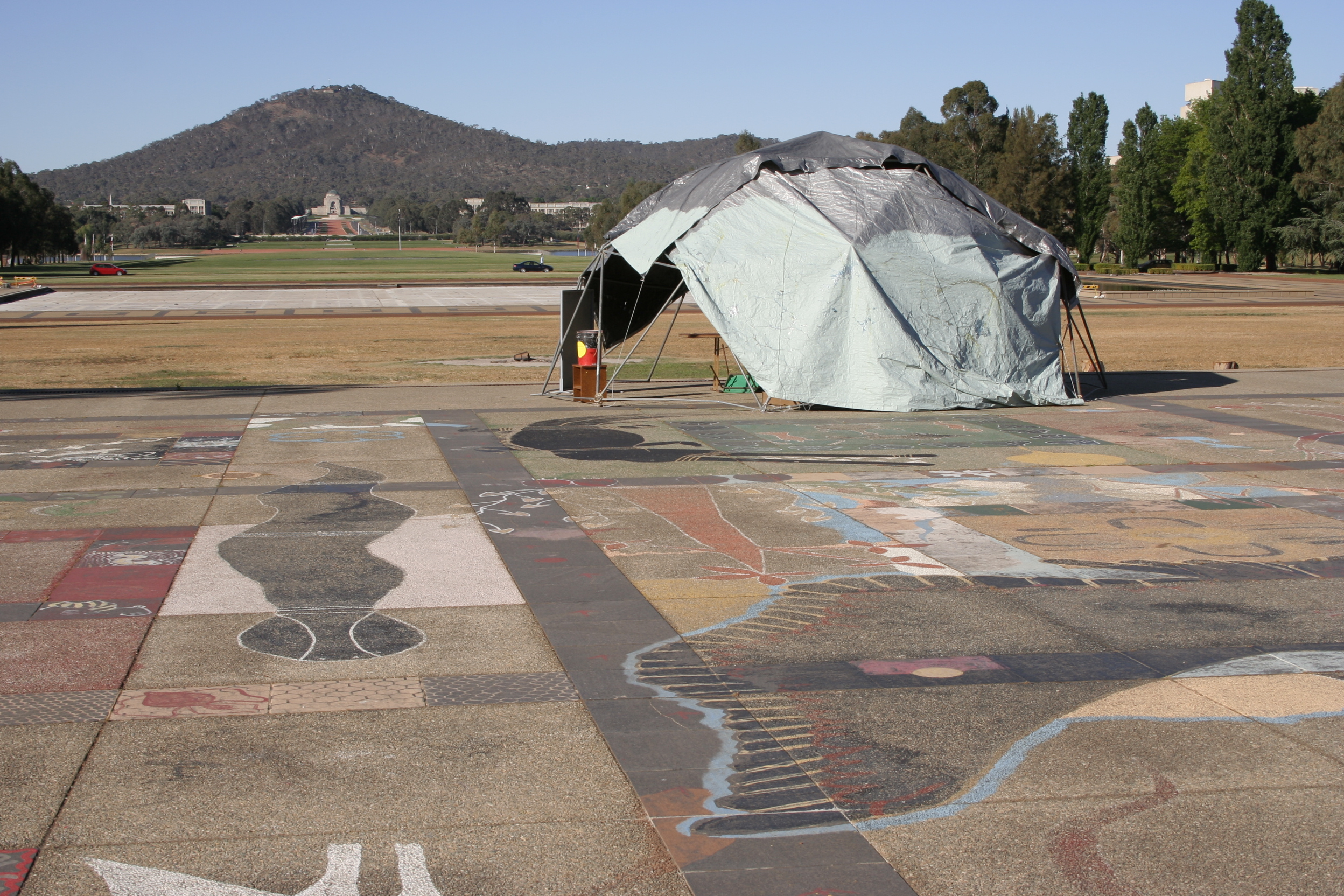 Aboriginal Embassy and Mount Ainslie 29-10-06